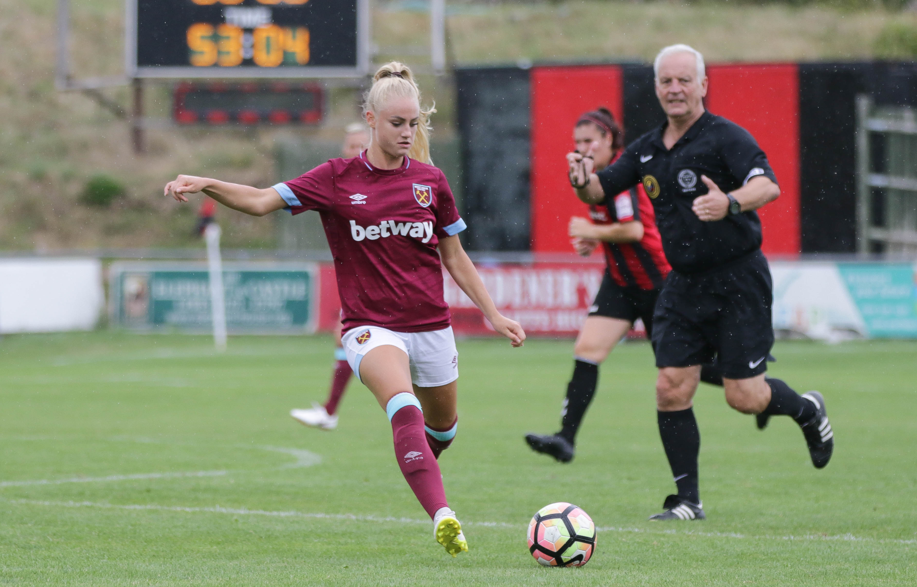 Lewes FC Women 0 West Ham Utd Women 5 pre season 12 08 2018-730.jpg